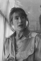 Cecilia Cenci- actriz argentina